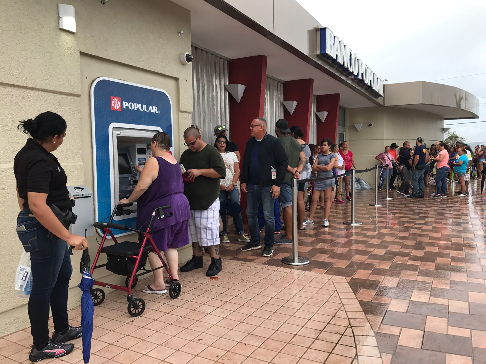 Residents of Ponce, Puerto Rico, line up at an ATM in hopes of getting some cash. More than a week after Hurricane Maria struck, residents are waiting in long lines to withdraw money and for gasoline.